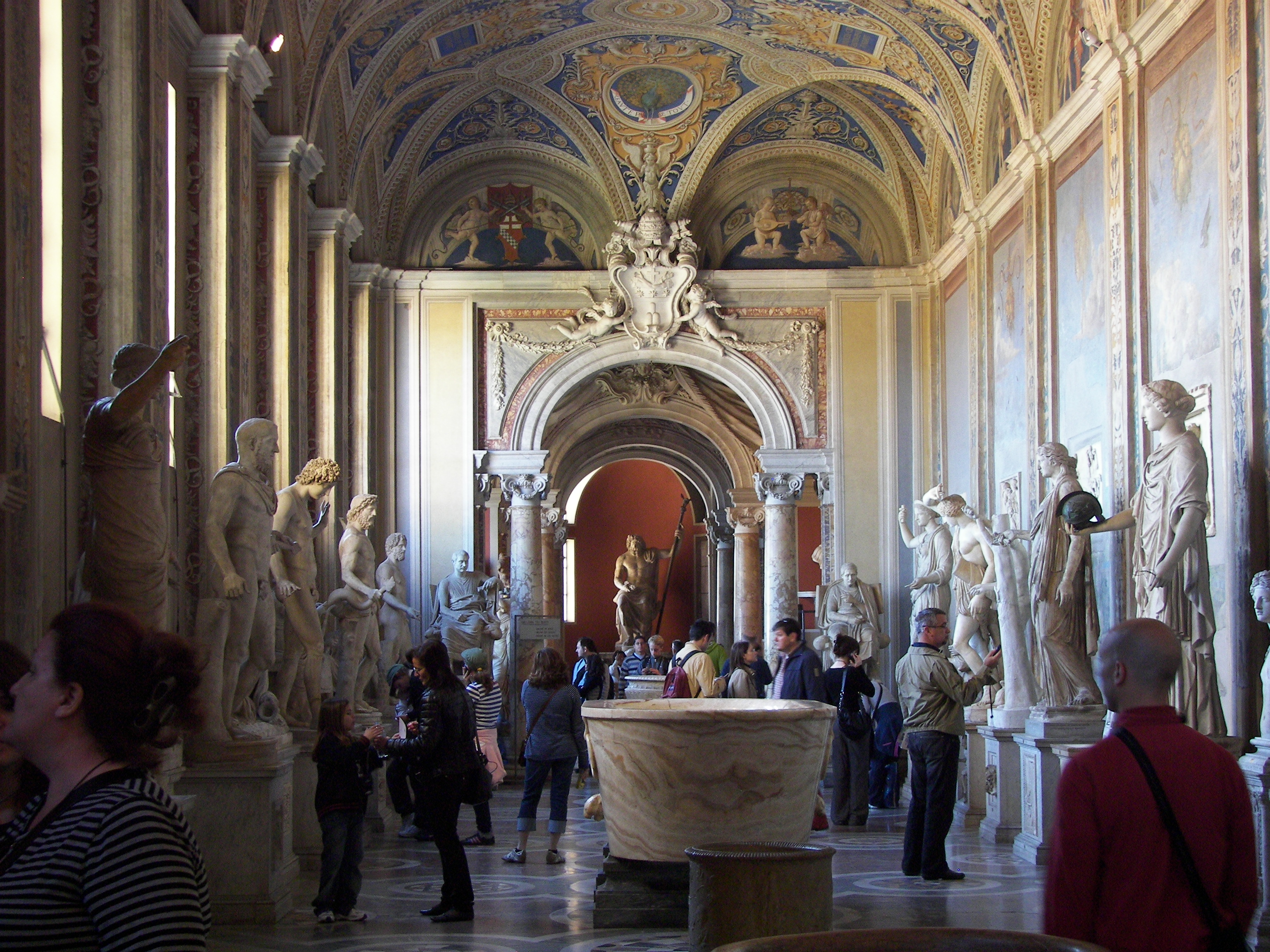 Museo Pio-Clementino in the Vatican Museums.